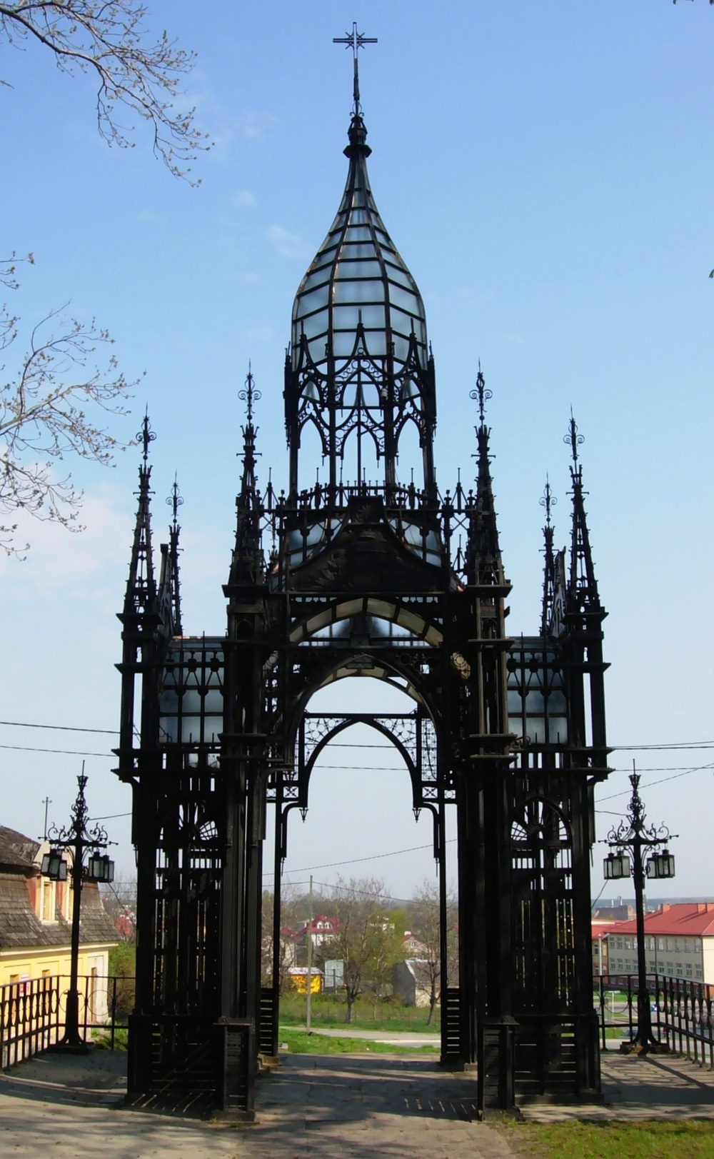 The church gate in Szewna, Poland